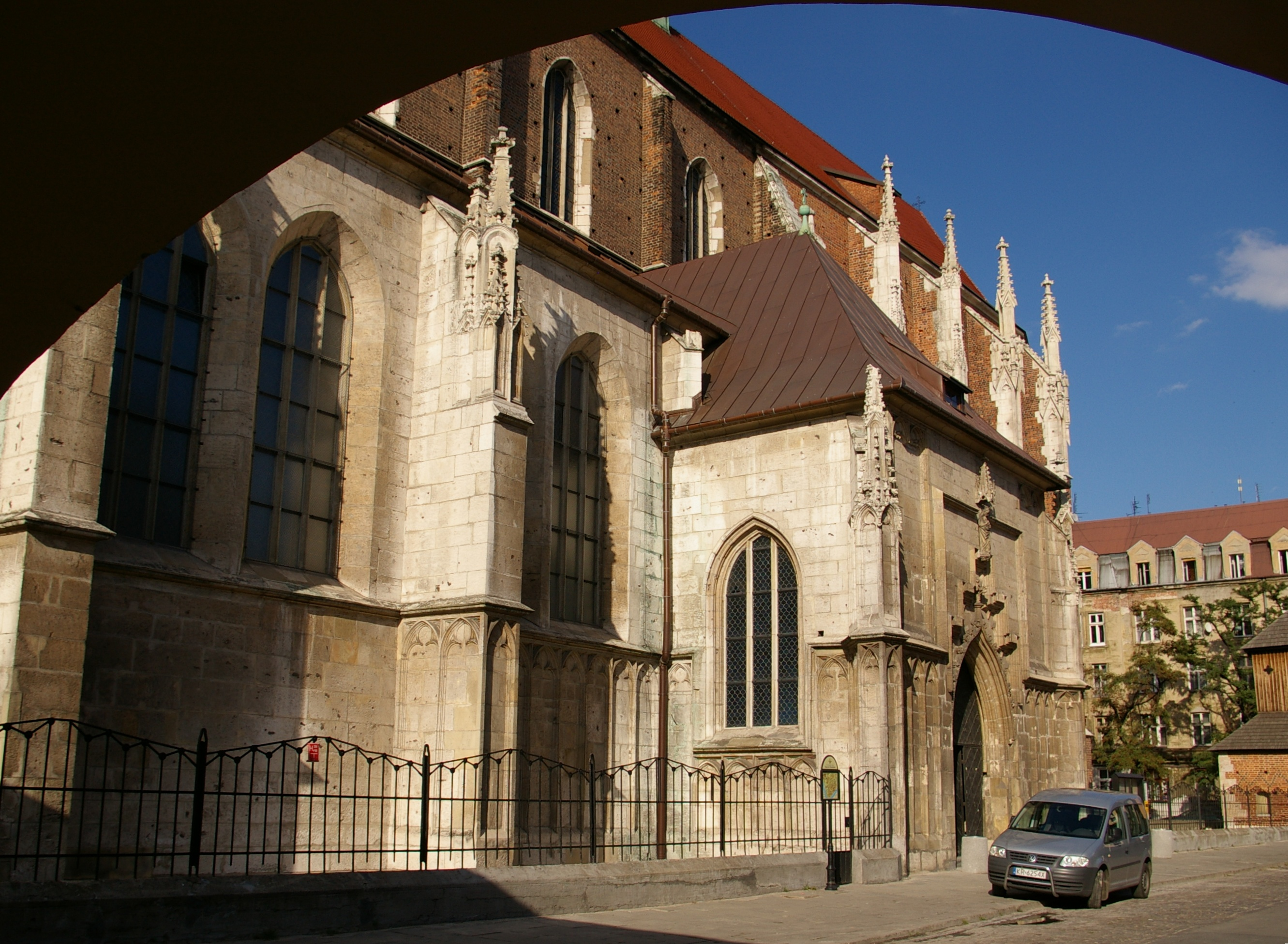 Church of St. Catherine in Kraków